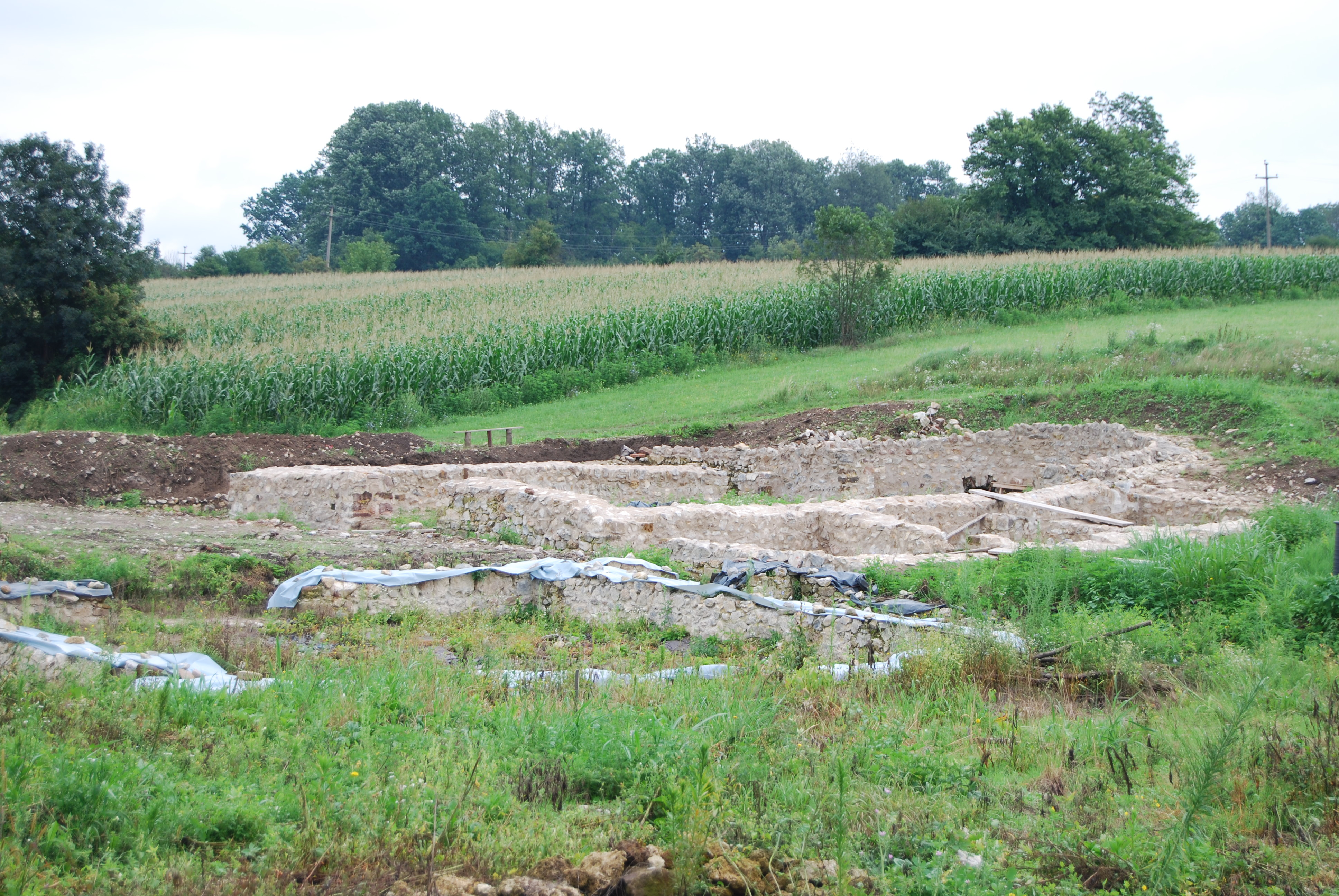 Archeological site Anine in Lajkovac